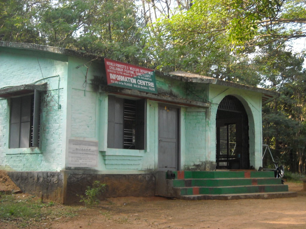 Chulanur peafowl sanctuary information center